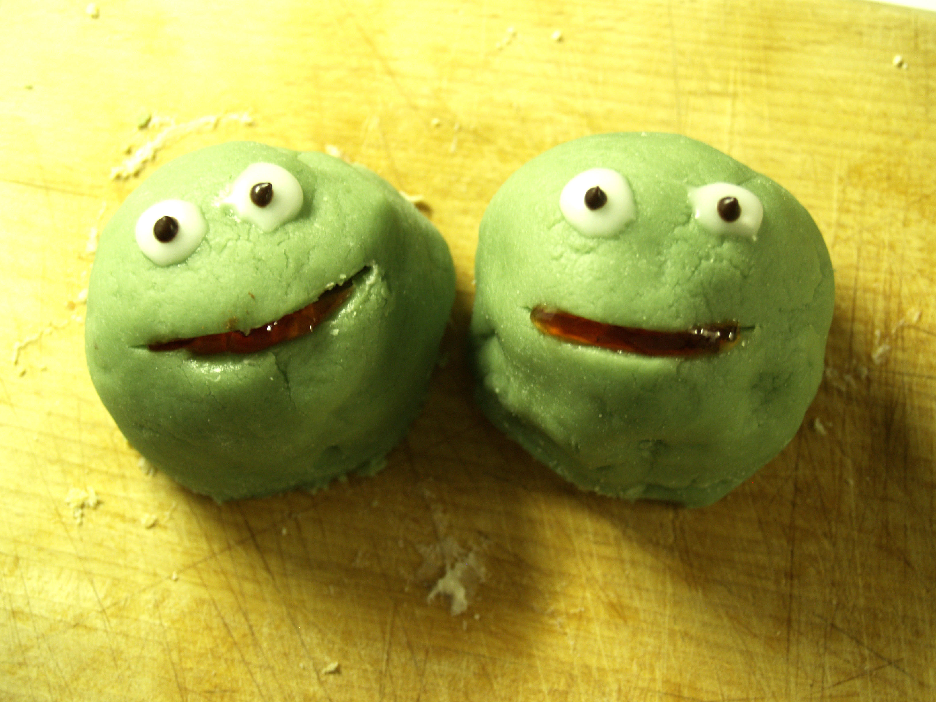 Cakes named "kajkager". Covered in green marzipan, they are intended to look like the frog Kaj from a locally wellknown Danish television programme for small children (Kaj og Andrea), aired since the 1970s.